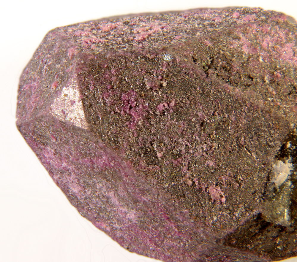 Locality: Tunaberg, Södermanland, Sweden Size: 0.5 × 0.4 × 0.3 cm Description: Very nice faceted cobaltite crystal from this classic Swedish locality, but more interesting for the pinkish to reddish layer that covers all the specimen. We have analyzed by SEM-EDS and results show that aplowite is present and accompanied by reddish erythrite.